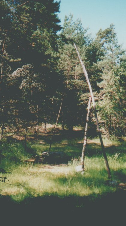 Old water well on Aegna (island of Estonia). Aegna, stará studně.